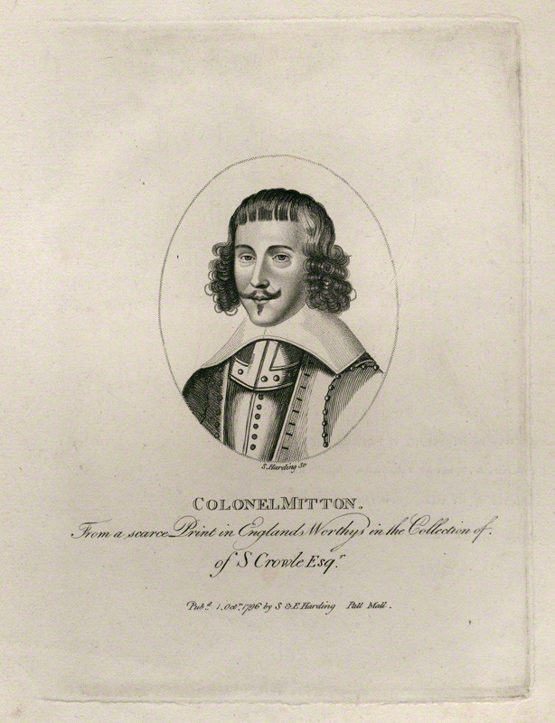 Portrait of Thomas Mytton (c.1597–1656), general in the Parliamentary army during the English Civil War.